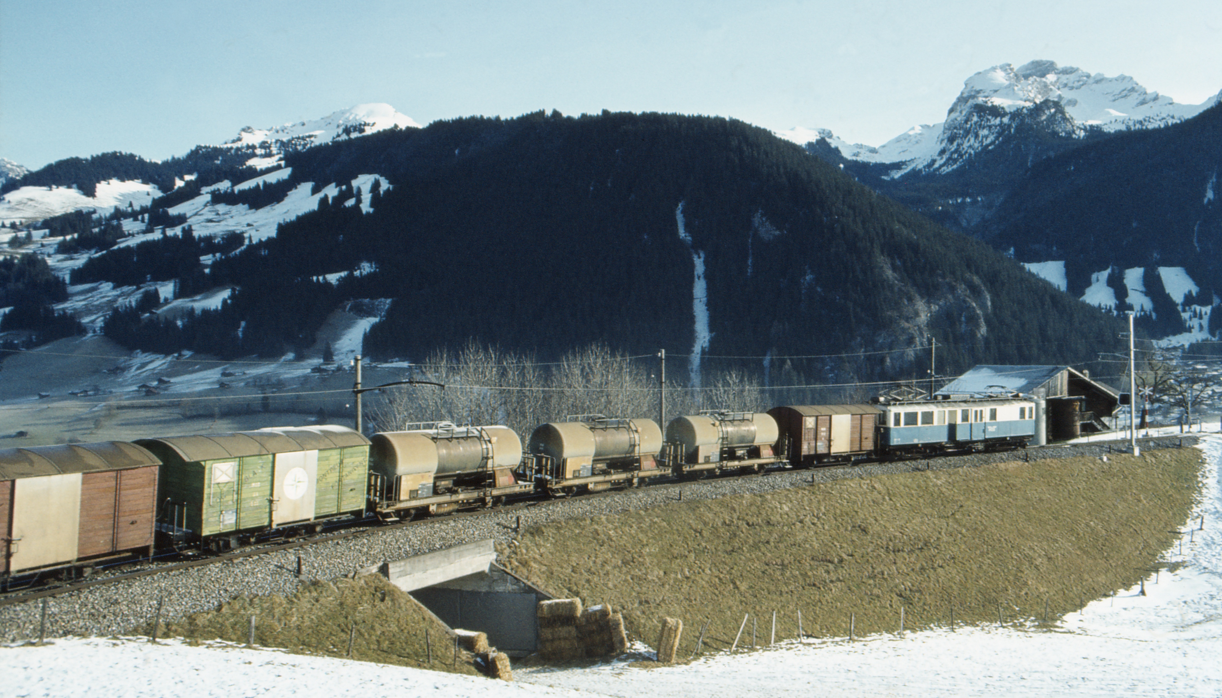 MOB freight train with BDe 4/4 28 near Zweisimmen, Switzerland